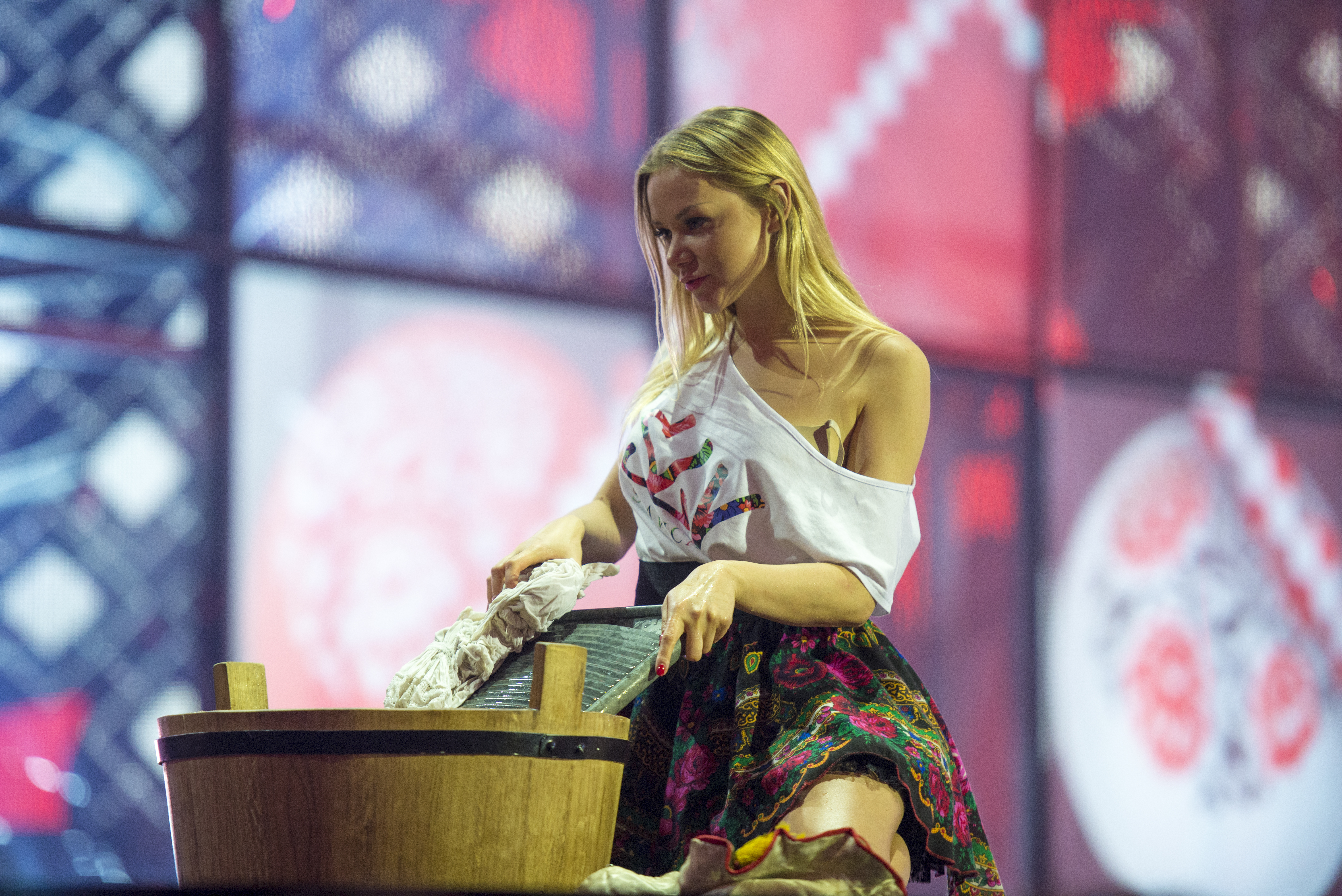 Donatan and Cleo representing Poland with the song "My Słowianie" during the first dress rehearsal of the final of the Eurovision Song Contest 2014 Copenhagen. (Help translate this text)